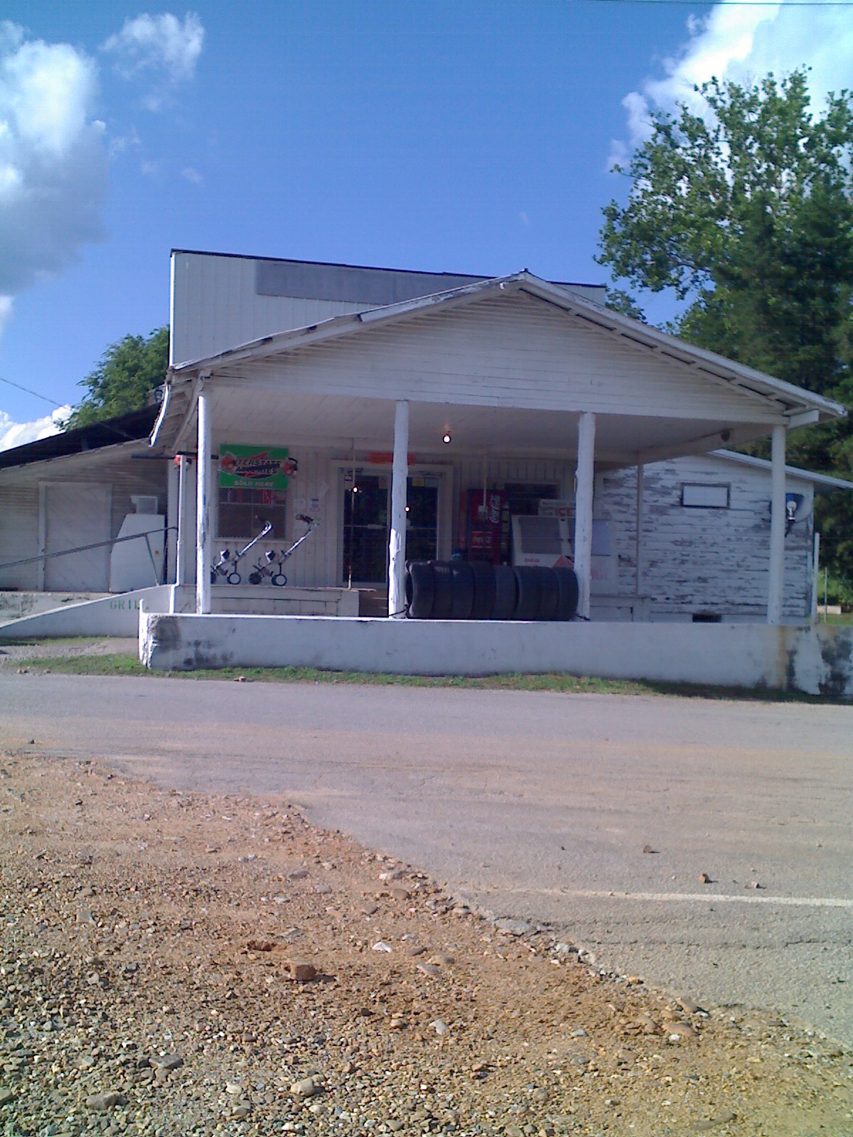 The original 1923 Bethel Store building